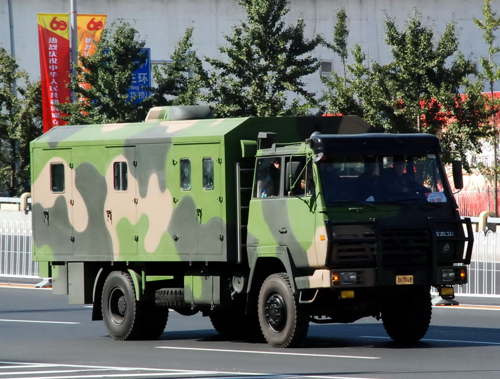 Chinese military truck during China's 60th anniversary parade, 2009.